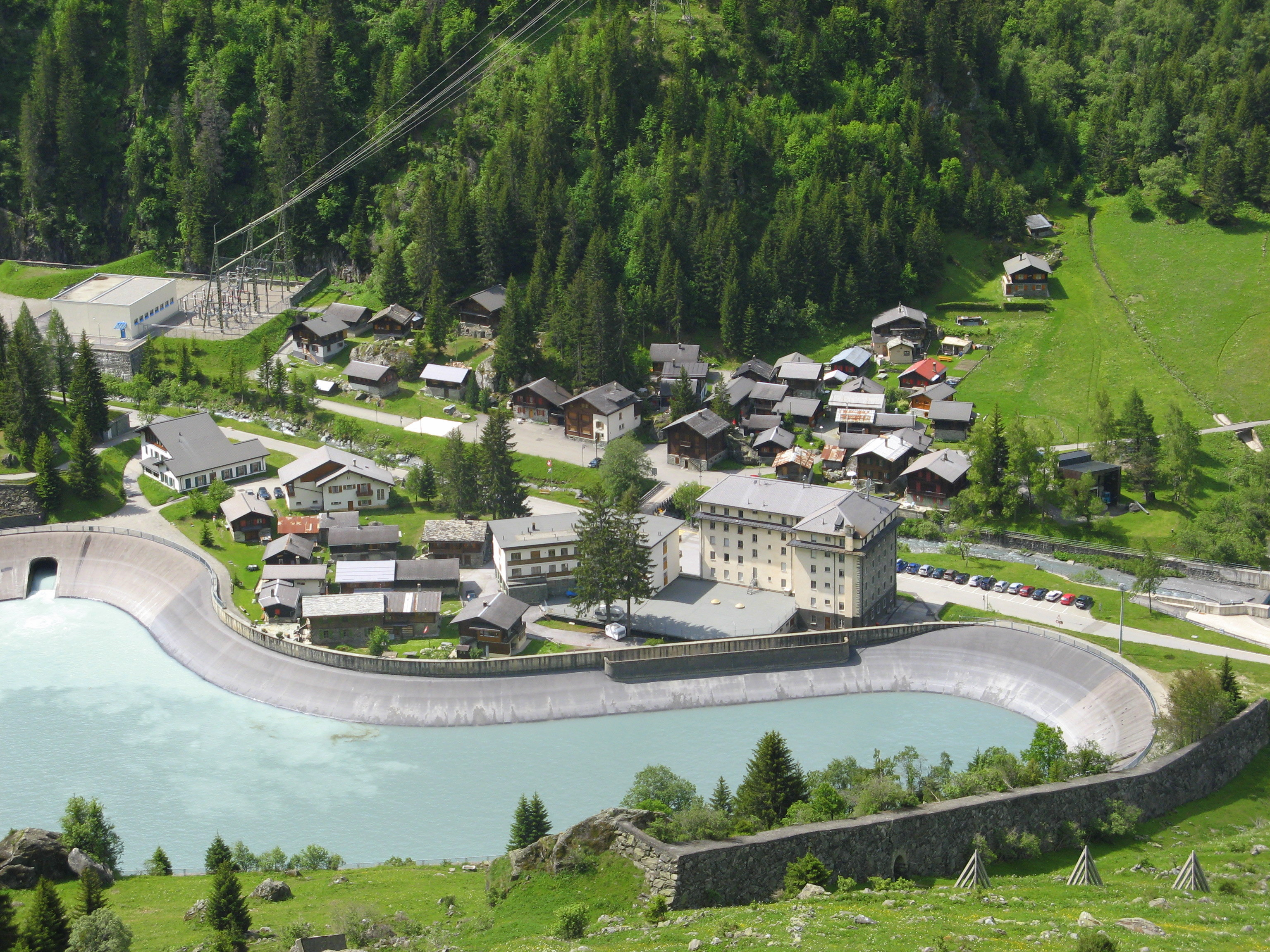 The Fionnay Hydroelectric Power Station.